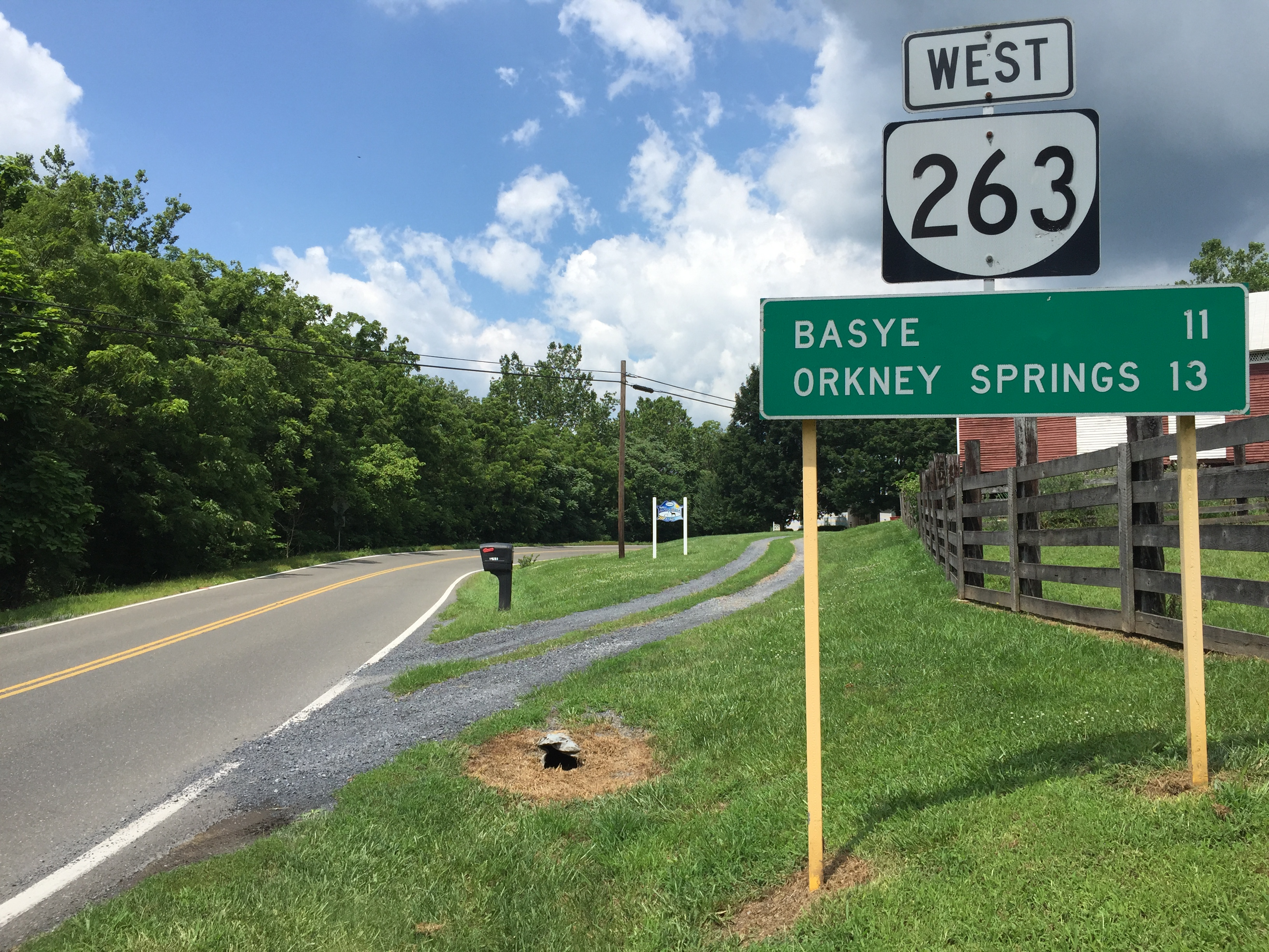 View west along Virginia State Route 263 (Orkney Grade) just west of Interstate 81 in Rinkerton, Shenandoah County, Virginia